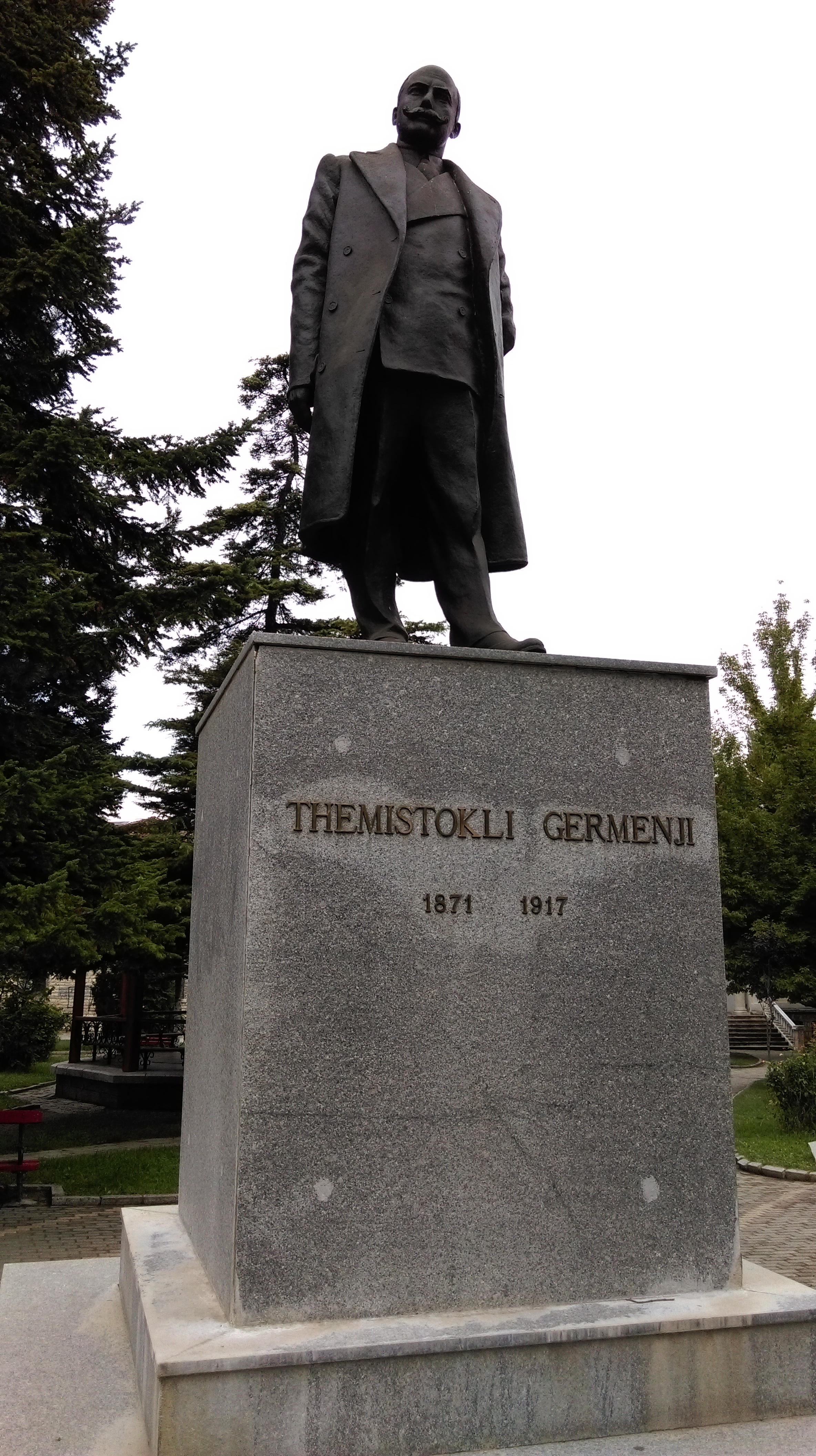 Statue of Themistokli Gërmenji in Korçë